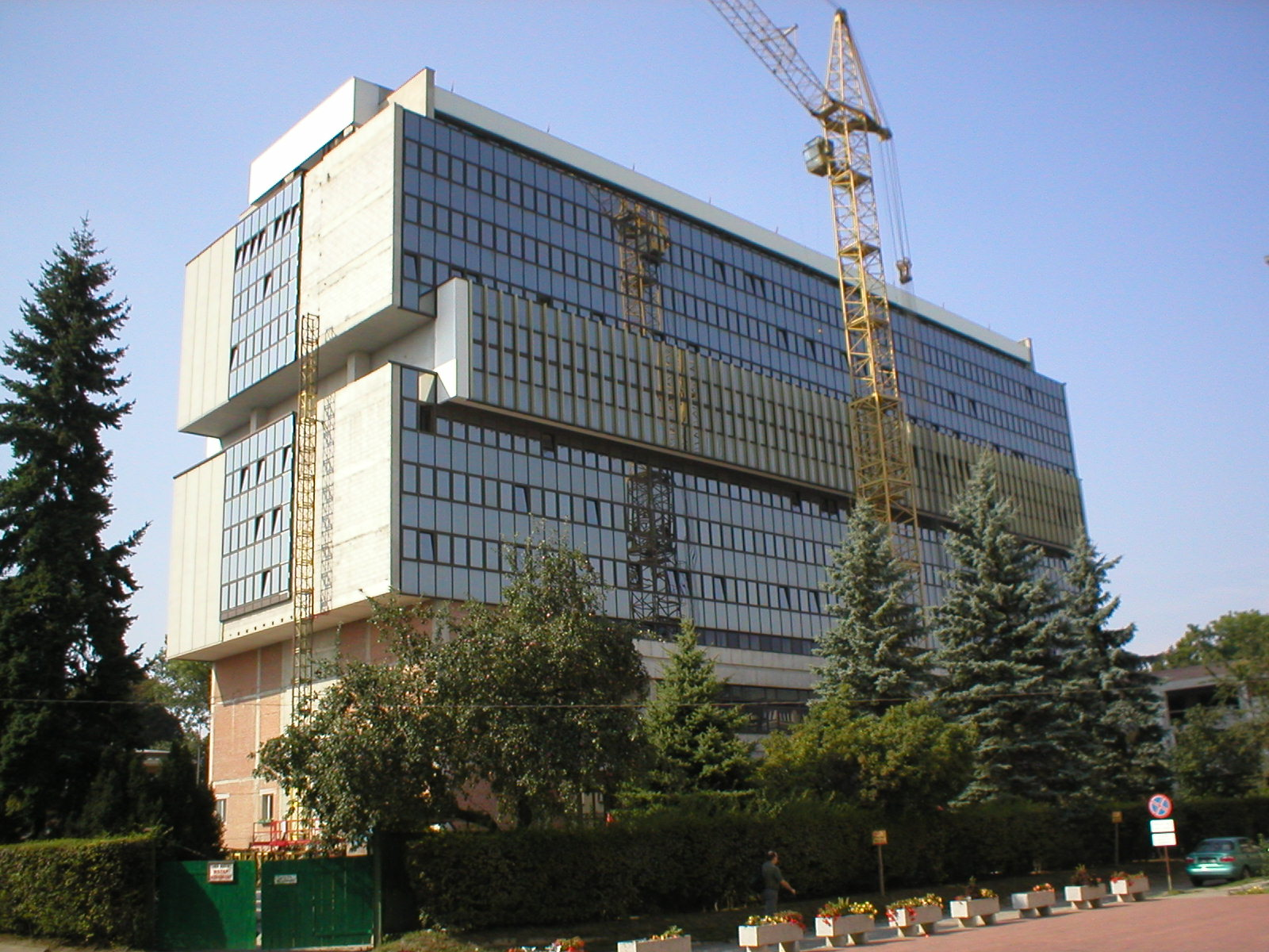 Poland, Lublin, Catholic University of Lublin - John Paul II Collegium